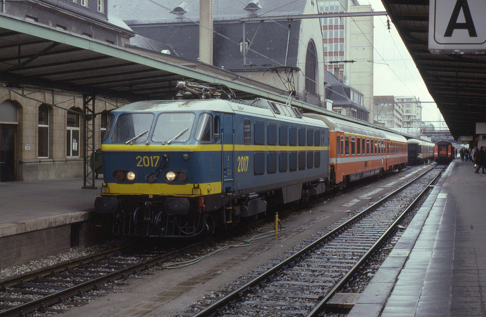 Class 20 electric locos were staple power for many years on international trains from Belgium on the line as far as Luxembourg for trains which then continued onto France, Switzerland and beyond. Seen here at Luxembourg, 2017 has two coaches which it will attach to lengthen the one seen in the adjacent platform. This would then call at principle stations via Namur to continue to Brussels or Oostende. Date taken, 10 June 1991.